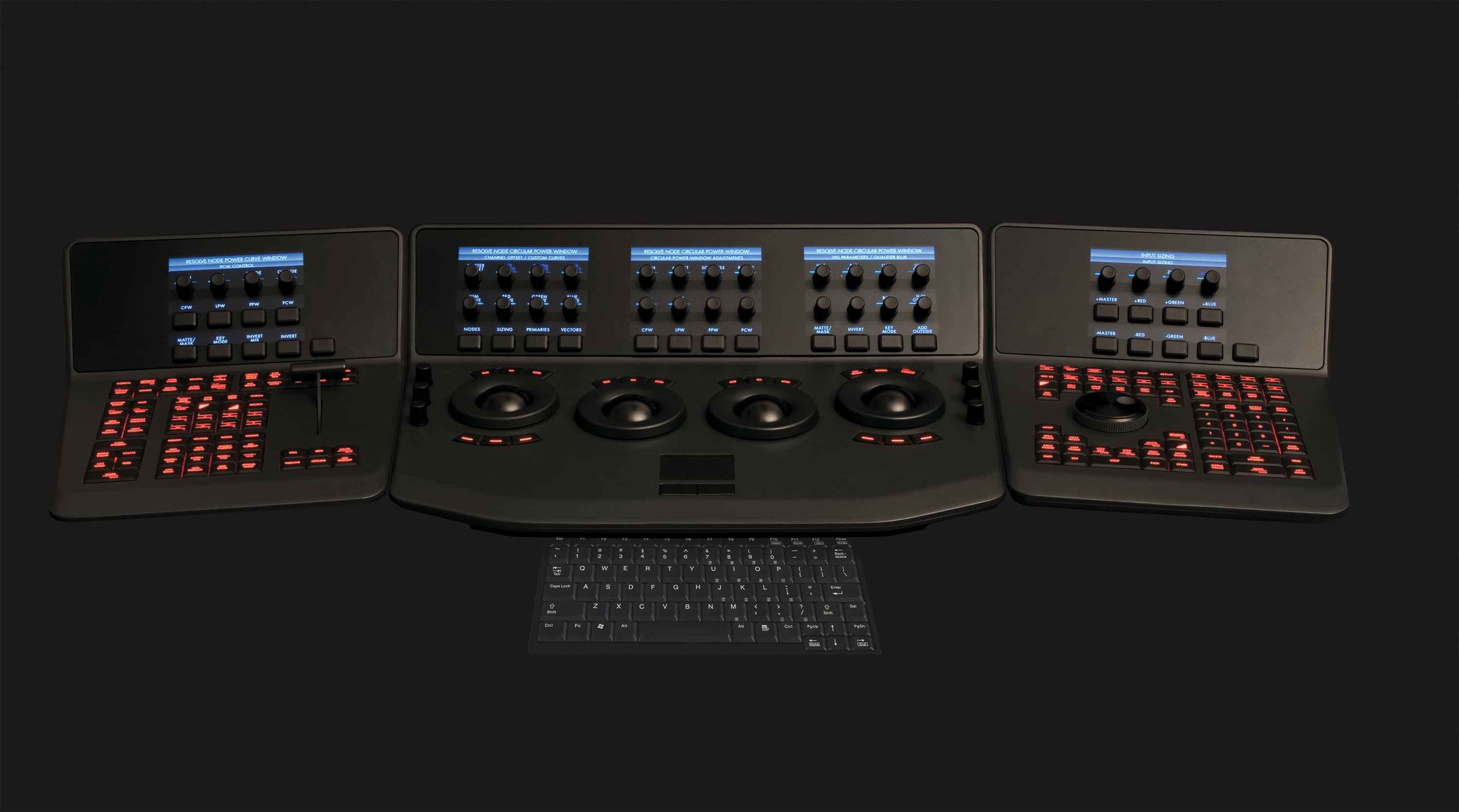 The DaVinci Resolve Advanced (previously known as da Vinci Impresario) color grading control panel. Produced by Blackmagic Design (previously produced by da Vinci Systems).